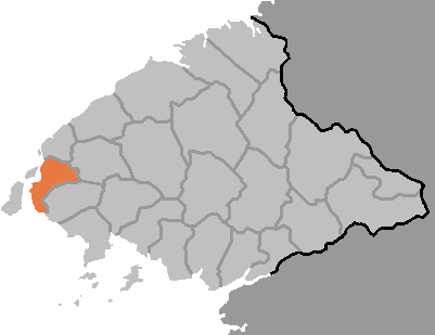 Map of Ryongchon, Pyongan-pukto, DPRK, 2006